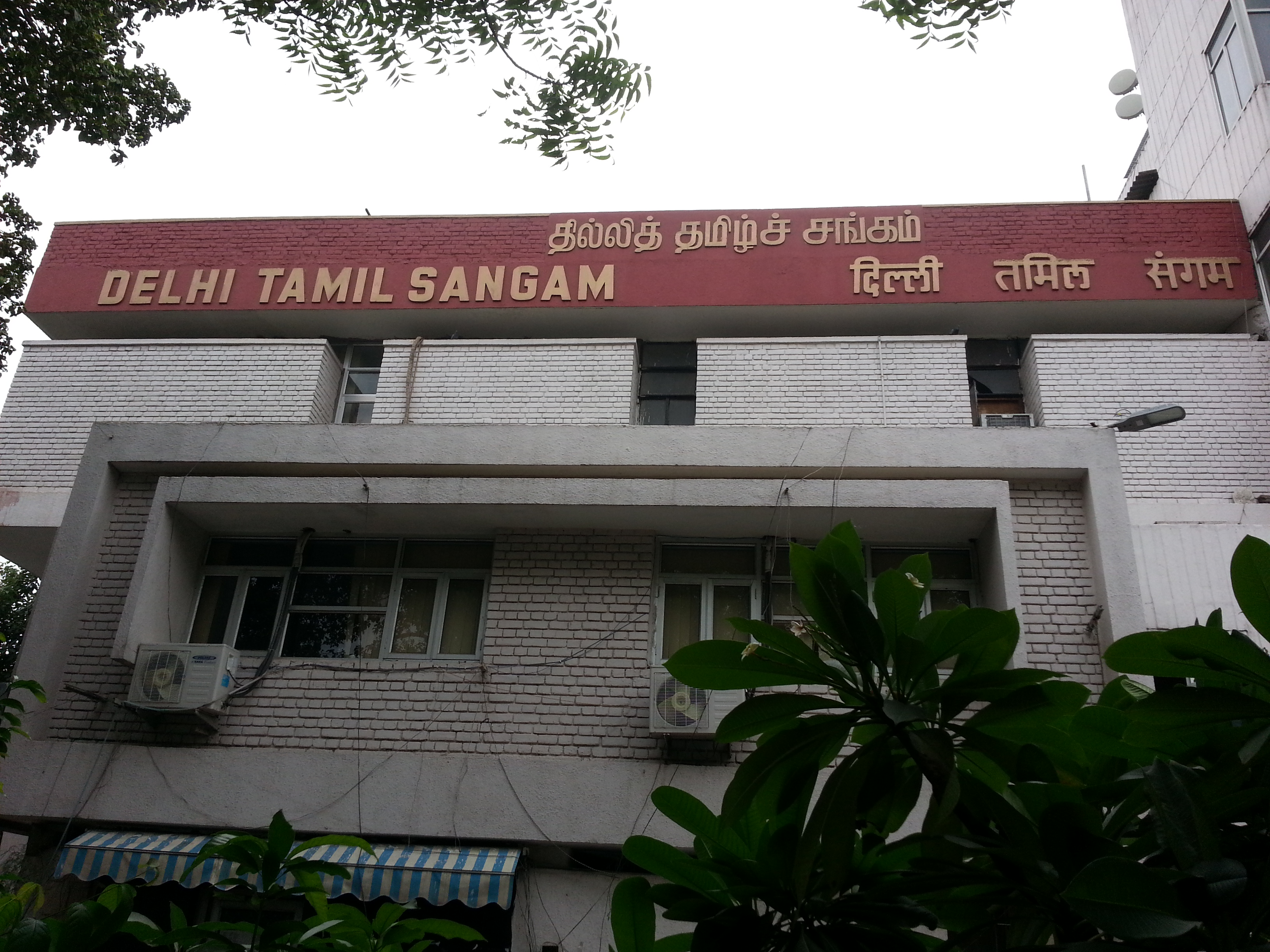 Front view of Delhi Tamil Sangam